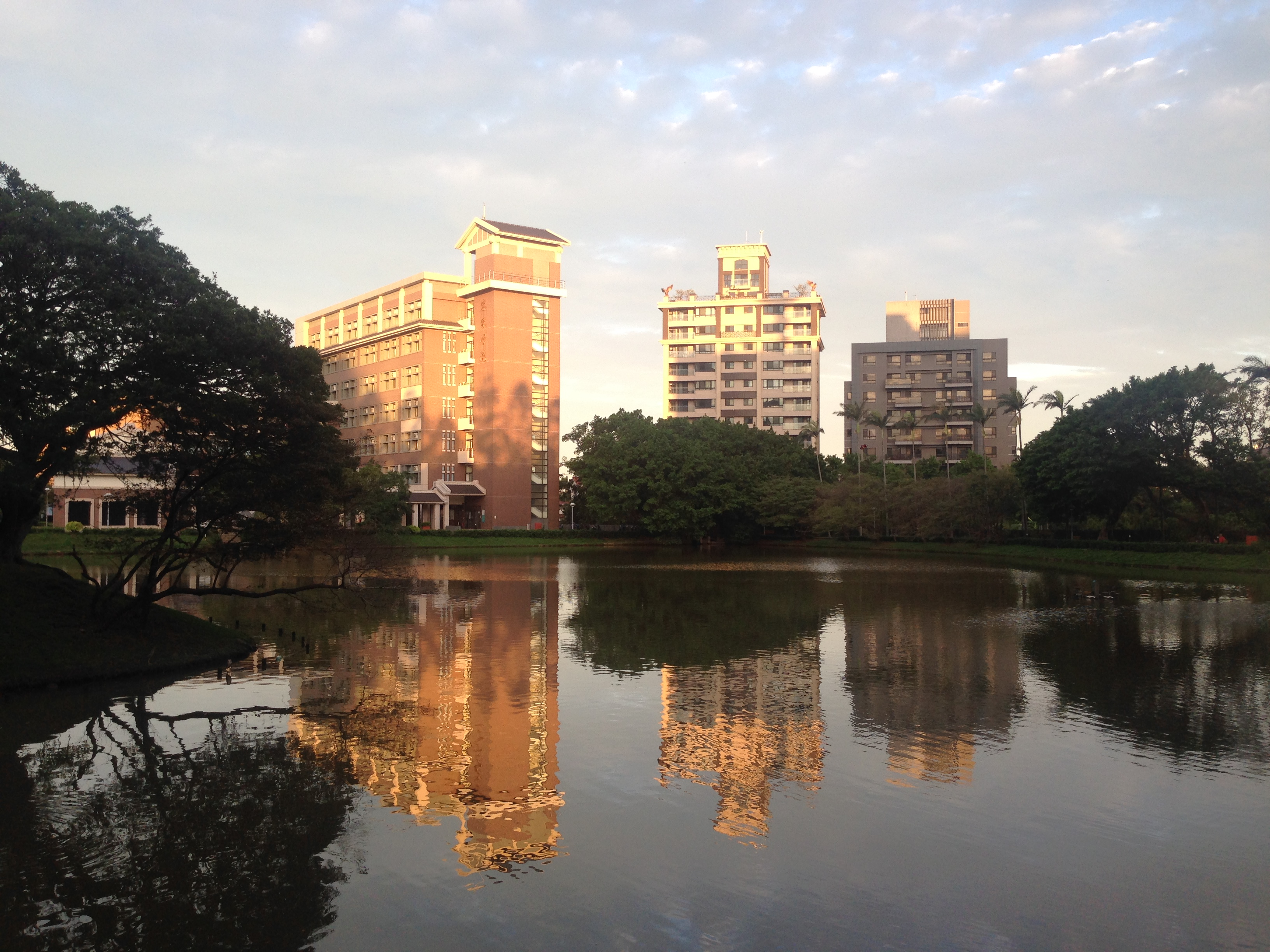 Chung-Ta Lake